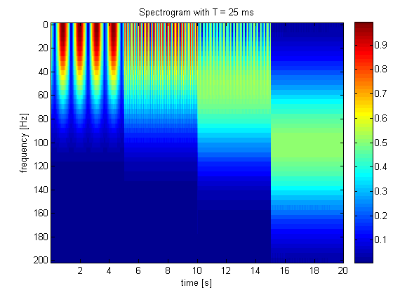 This picture is one of the four spectrograms I have created of the following signal: sampled at 400 Hz. I have created this picture and all the other three spectrograms with the following Matlab code, that is based on my stft script that you can find at User:Alejo2083/Stft script: clear all; %sampling frequency fc=400; %duration of the signal T=20; %zero padding factor my_zero=10; %generate the signal t=linspace(0,T,fc*T); x=zeros(1,length(t)); %thresholds th1=0.25*T*fc; th2=0.5*T*fc; th3=0.75*T*fc; th4=T*fc; x(1:th1)=cos(2*pi*10*t(1:th1)); x((th1+1):th2)=cos(2*pi*25*t((th1+1):th2)); x((th2+1):th3)=cos(2*pi*50*t((th2+1):th3)); x((th3+1):th4)=cos(2*pi*100*t((th3+1):th4)); %calculate and show the spectrograms [spectrogram, axisf, axist]=stft(x,10,1,fc,'blackman',my_zero); spectrogram=spectrogram/max(spectrogram(:)); figure,imagesc(axist,axisf,spectrogram), title('Spectrogram with T = 25 ms'), ylabel('frequency [Hz]'), xlabel('time [s]'), colorbar; [spectrogram, axisf, axist]=stft(x,50,1,fc,'blackman',my_zero); spectrogram=spectrogram/max(spectrogram(:)); figure,imagesc(axist,axisf,spectrogram), title('Spectrogram with T = 125 ms'), ylabel('frequency [Hz]'), xlabel('time [s]'), colorbar; [spectrogram, axisf, axist]=stft(x,150,1,fc,'blackman',my_zero); spectrogram=spectrogram/max(spectrogram(:)); figure,imagesc(axist,axisf,spectrogram), title('Spectrogram with T = 375 ms'), ylabel('frequency [Hz]'), xlabel('time [s]'), colorbar; [spectrogram, axisf, axist]=stft(x,400,1,fc,'blackman',my_zero); spectrogram=spectrogram/max(spectrogram(:)); figure,imagesc(axist,axisf,spectrogram), title('Spectrogram with T = 1000 ms'), ylabel('frequency [Hz]'), xlabel('time [s]'), colorbar; Feel free to improve the code, to speed it up or just make it clearer.